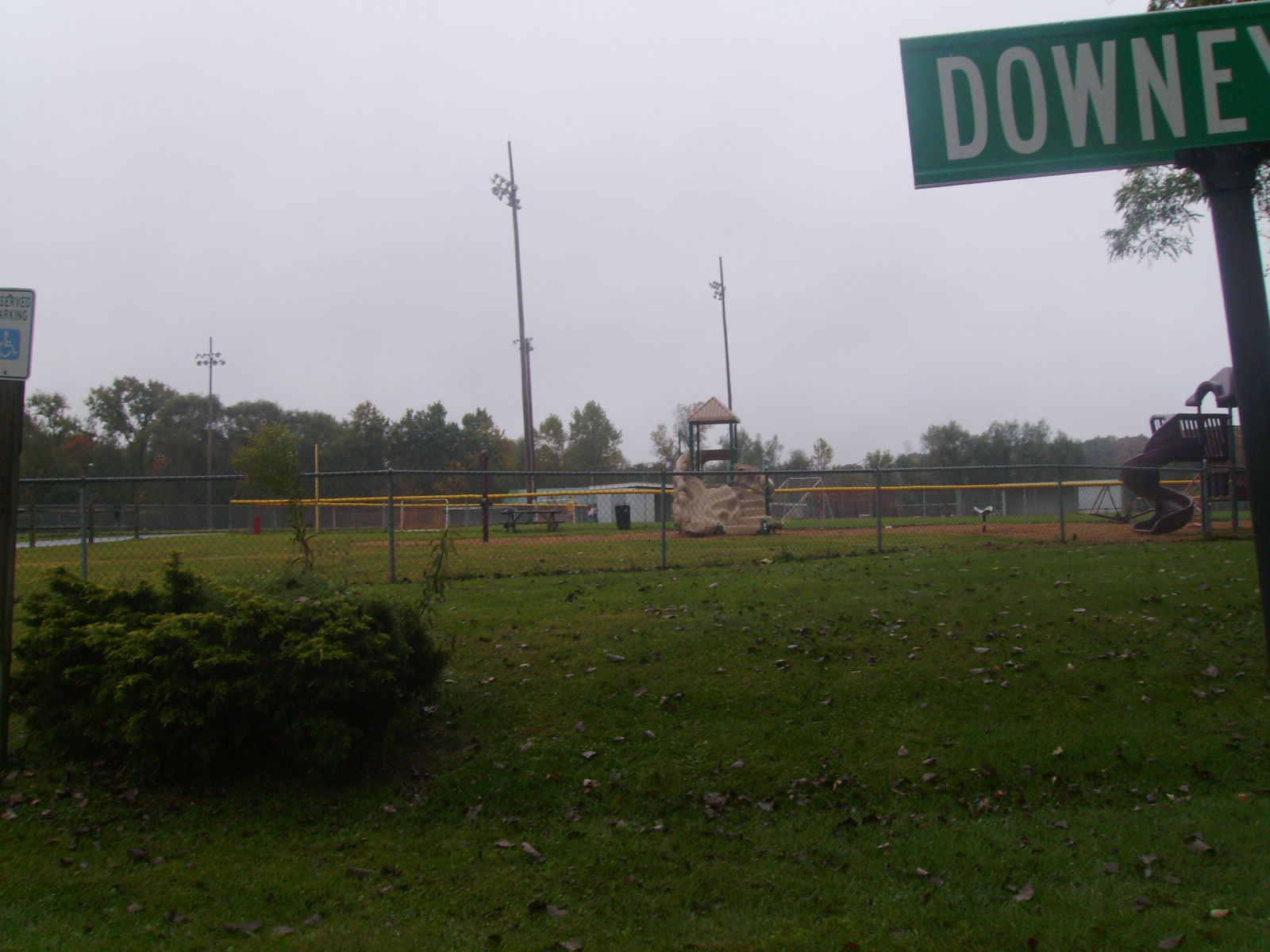 The northern end of Beekman Park and its ballfields in Amenia, New York. This portion is accessible from U.S. Route 44